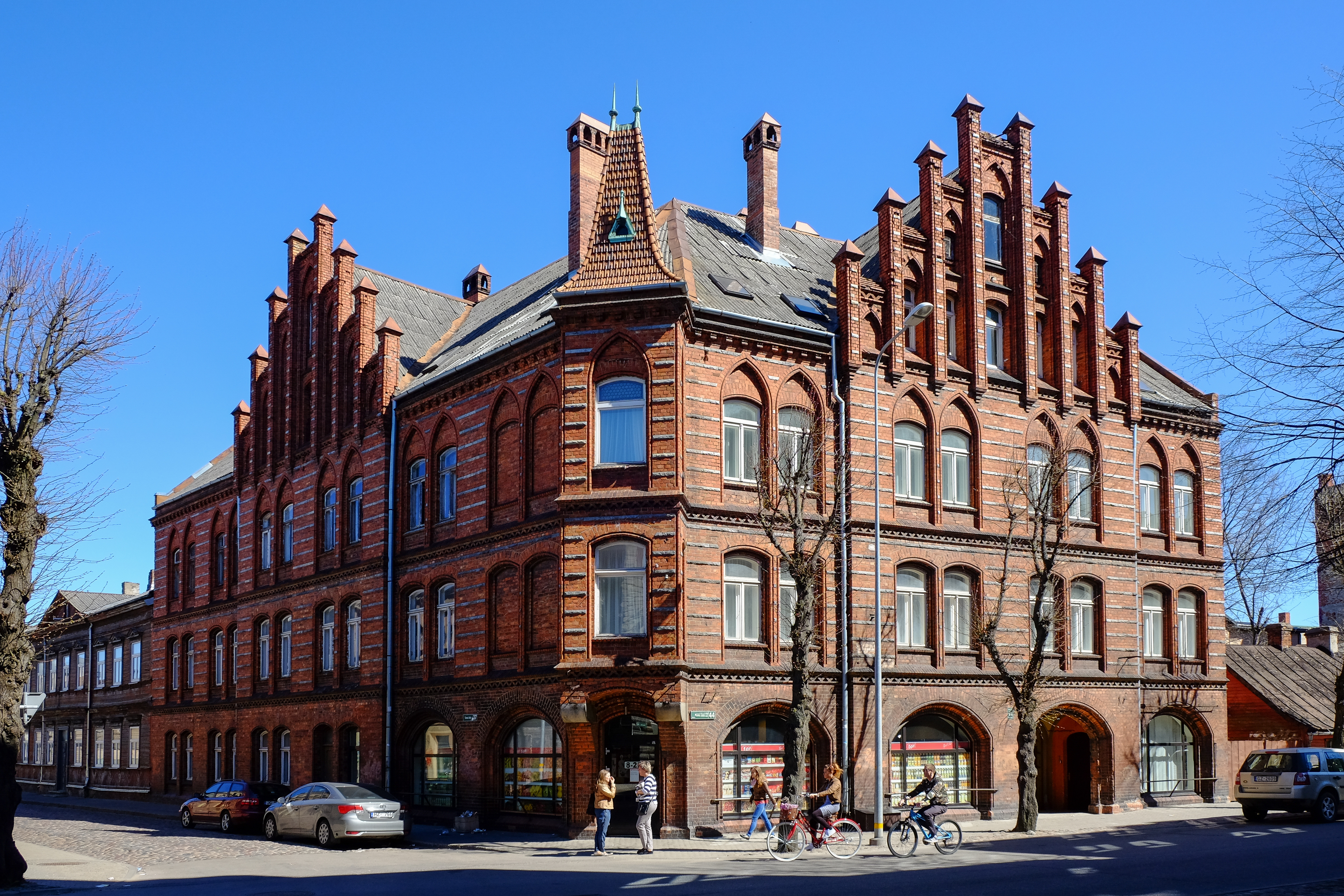 Dwelling house, Liepāja, 44 Peldu street